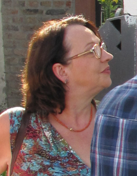 Katja Lange-Mueller, German writer, 2011 in Frankfurt am Main-Bergen-Enkheim, Germany.